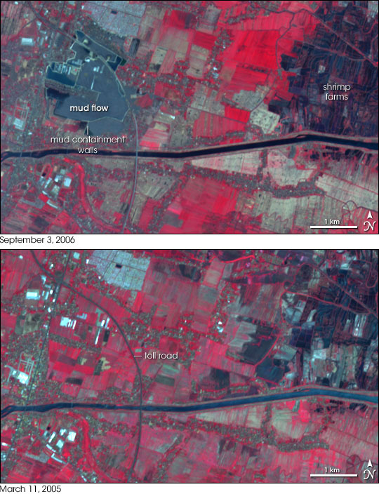 Satelite Imagery of Sidoarjo before and after Sidoarjo mud flow